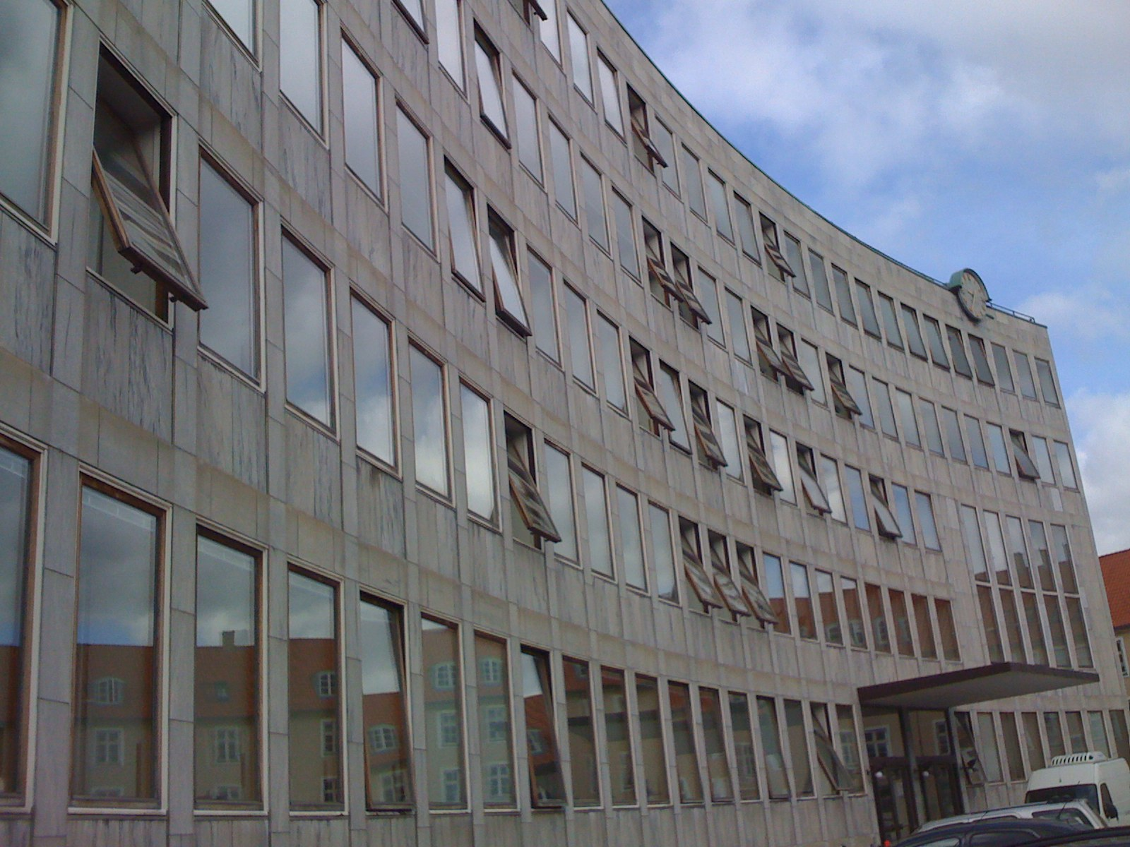 The Town Hall of Lyngby-Taarbæk Municipality